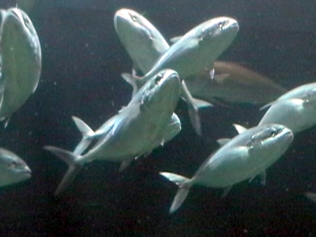 Picture of a school of blue runner, Caranx crysos. Taken from Spanish Government page listing all images under cc-by-sa license